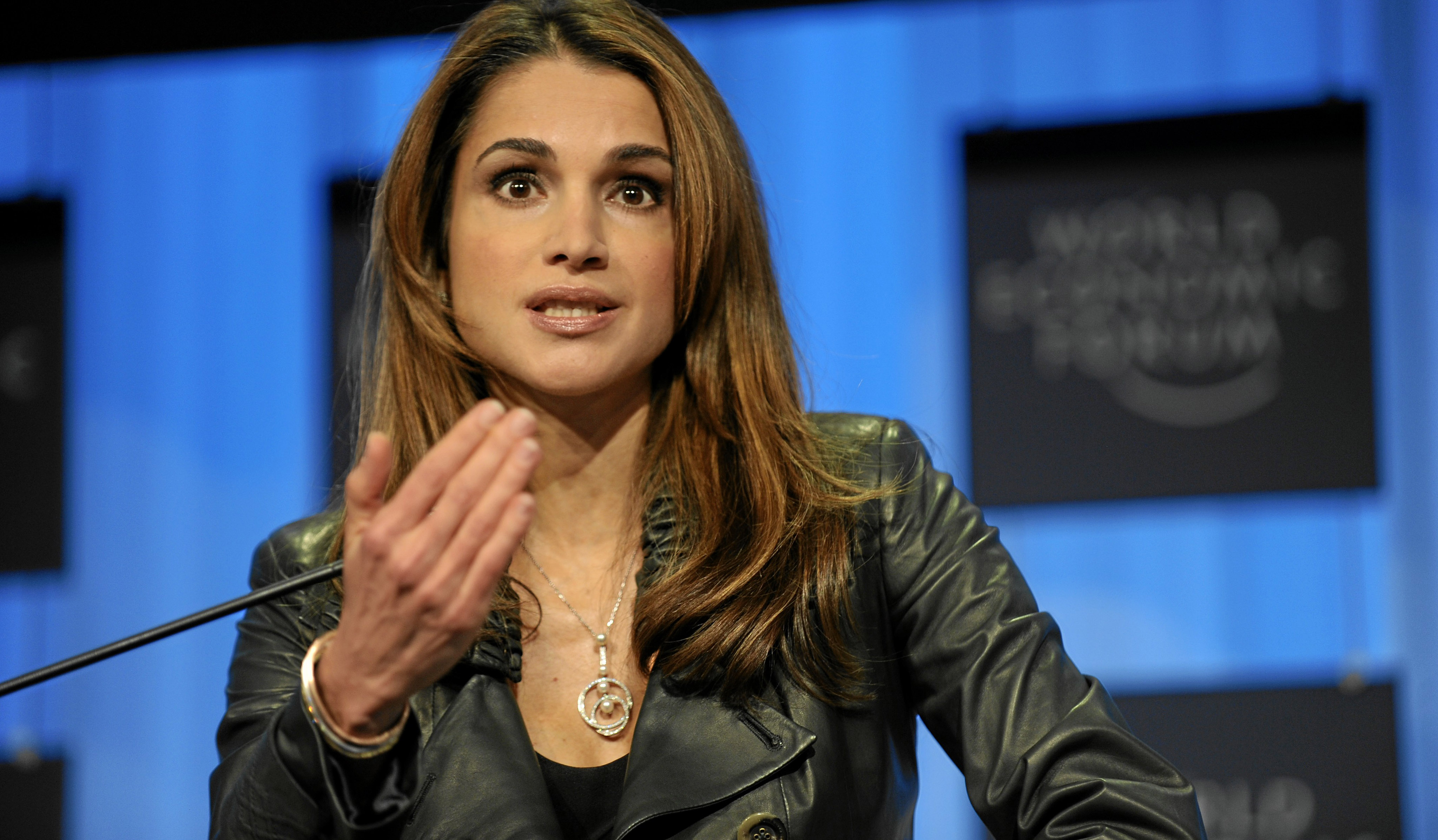 HM The Queen of Jordan at the World Economic Forum 2010.